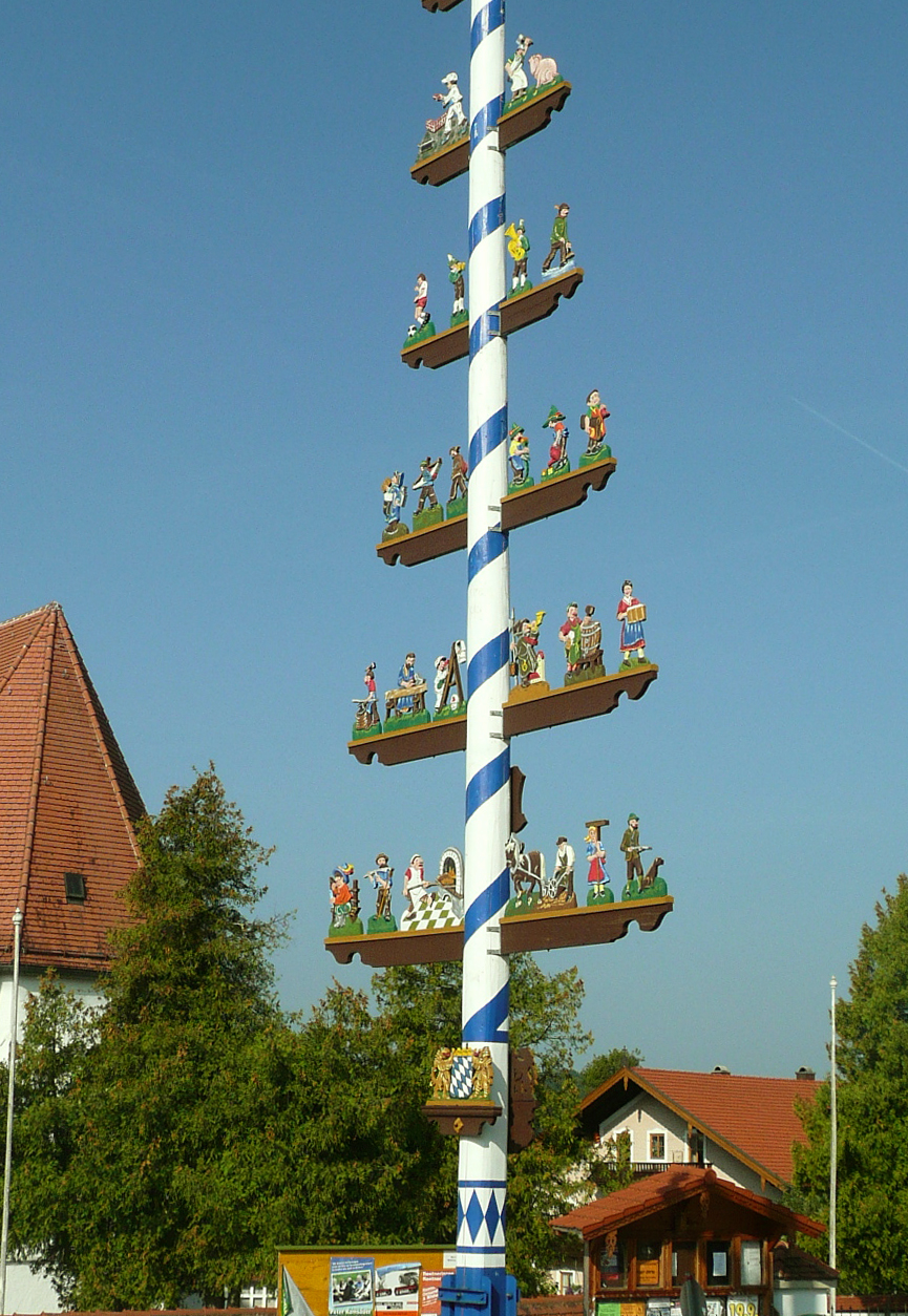 Maypole in Otting (Waging am See),Upper Bavaria.